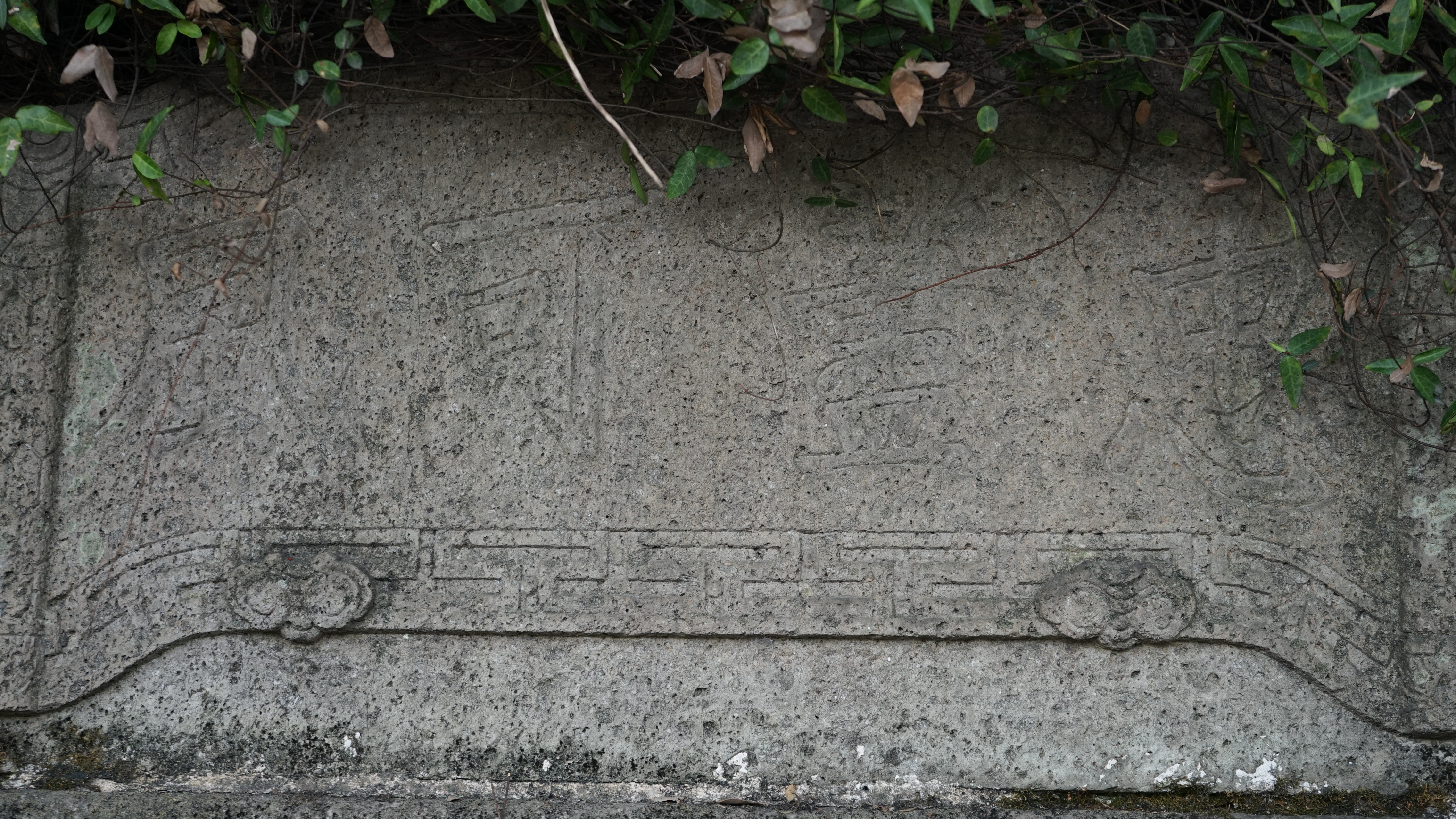 "忠荩可风"--handwriting of Xianfeng Emperor. Tomb of Ge Yunfei